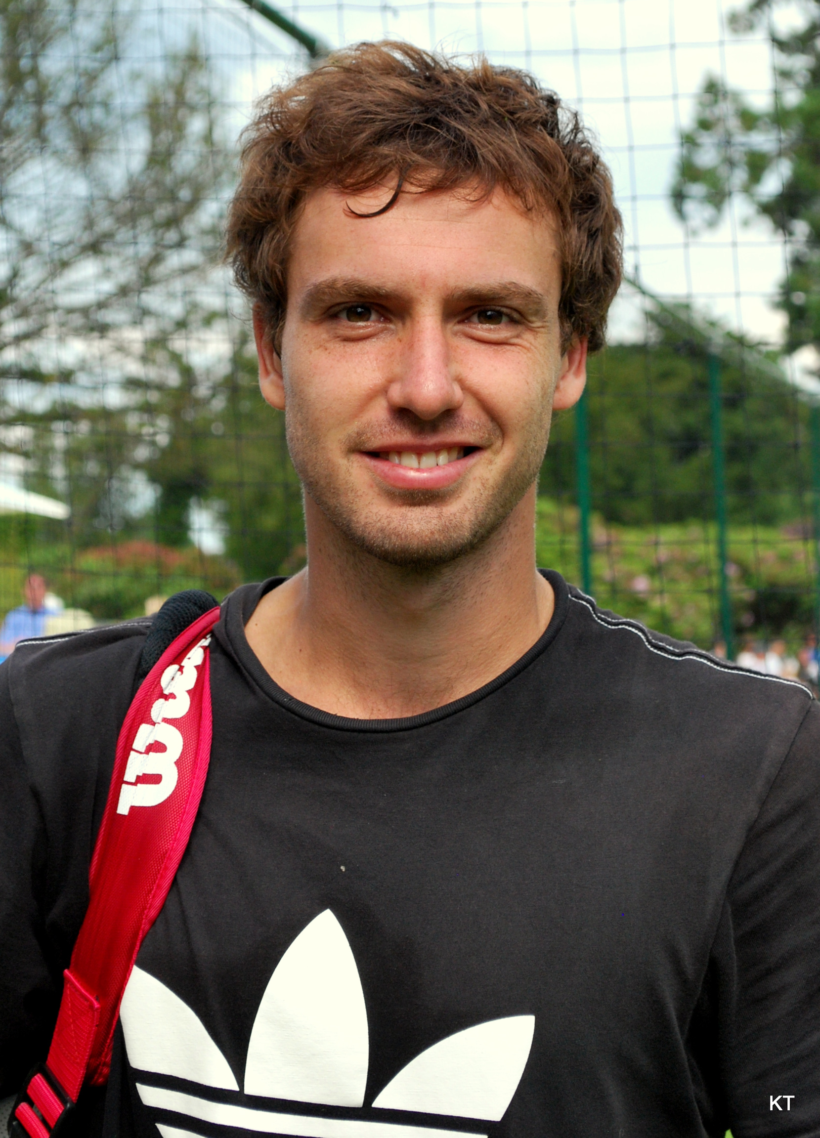 The Boodles, Stoke Park 2012.